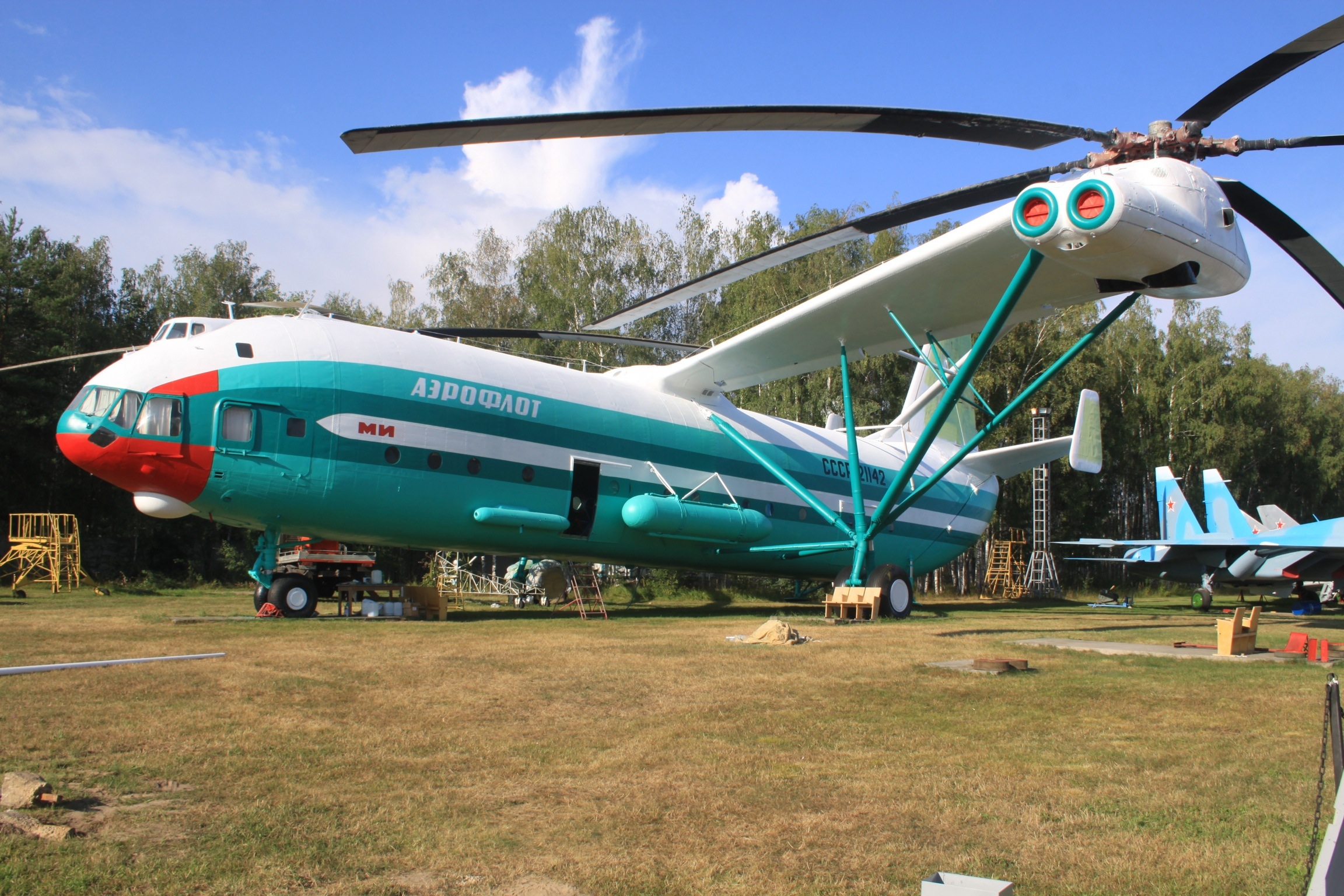 At Monino Museum